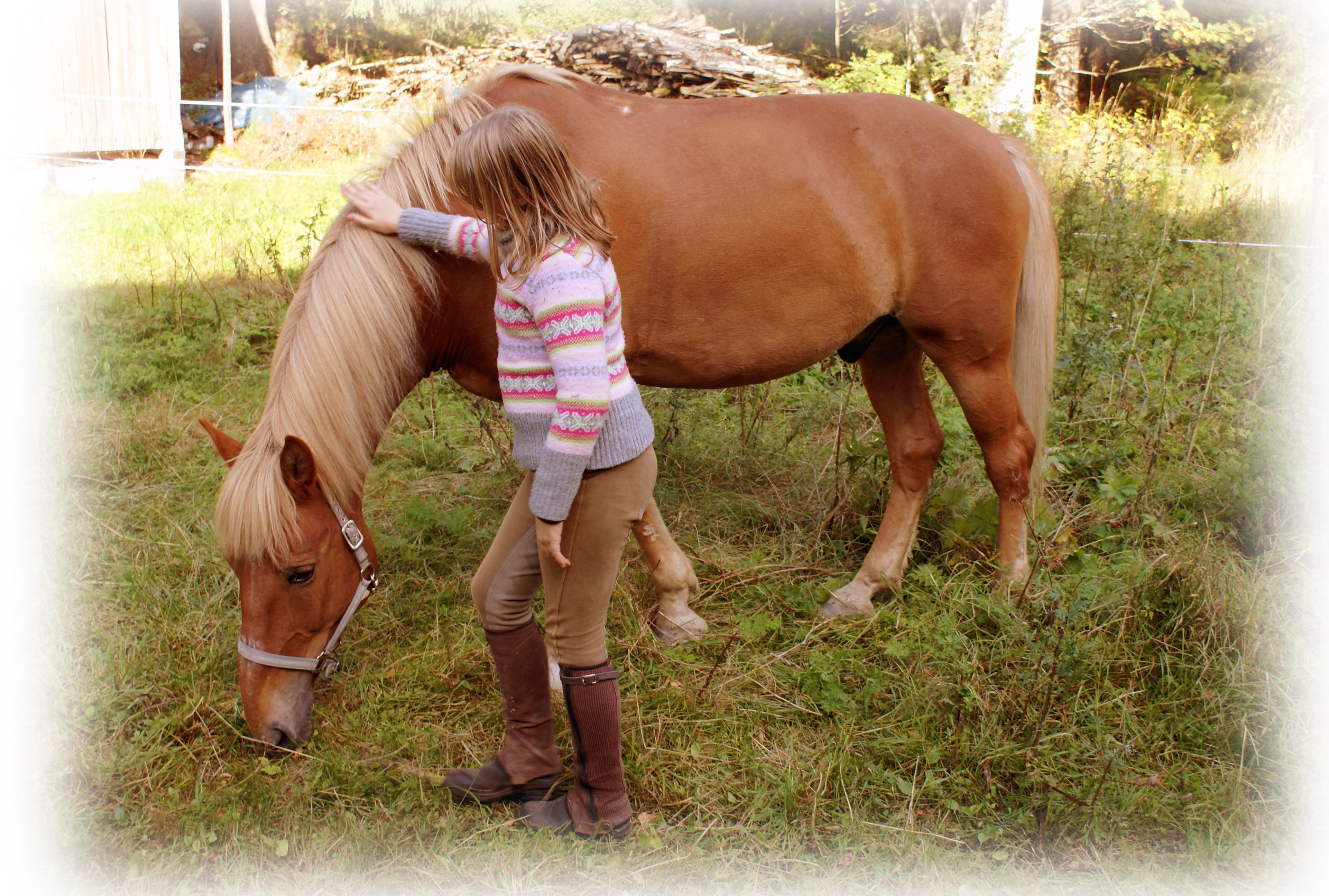 A photograph of a Finnhorse with a girl